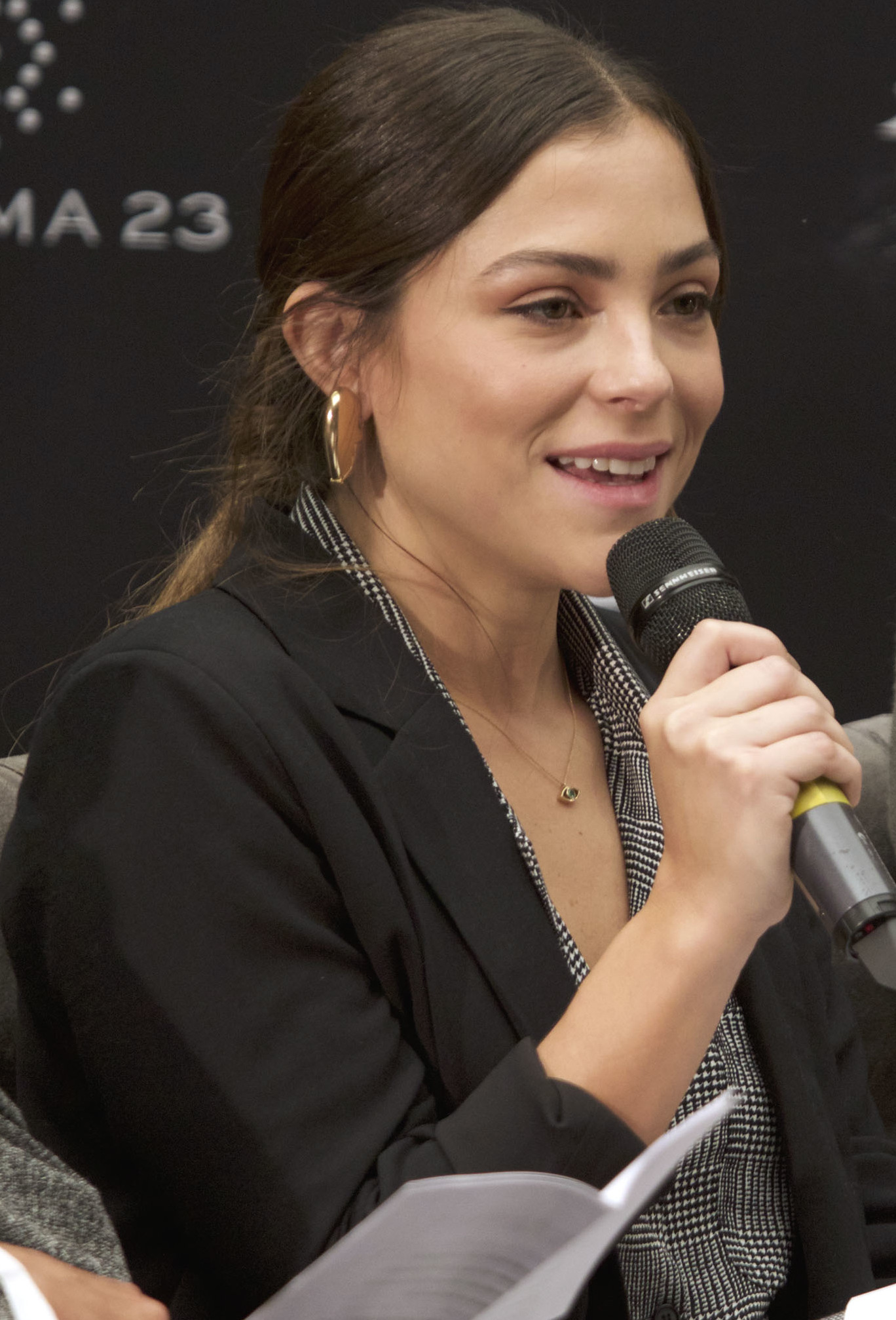 En el Museo de a Ciudad de Museo de la Ciudad de México, se realizó la conferencia de prensa, para presentar los detalles del Premio Fénix, co la presencia de Eduardo Vázquez Marín, secretario de Cultura de la Ciudad de México.De izquierda a derecha, Mónica Lozano, Paulina Dávila, Eduardo Vázquez Martín, Ricardo Gildardo, Jayro Bustamante, Alonso Ruizpalacios, Rodrigo Peñafiel, Sebastián Hofmann, Irene Muñoz Trujillo y Daniela Miche.